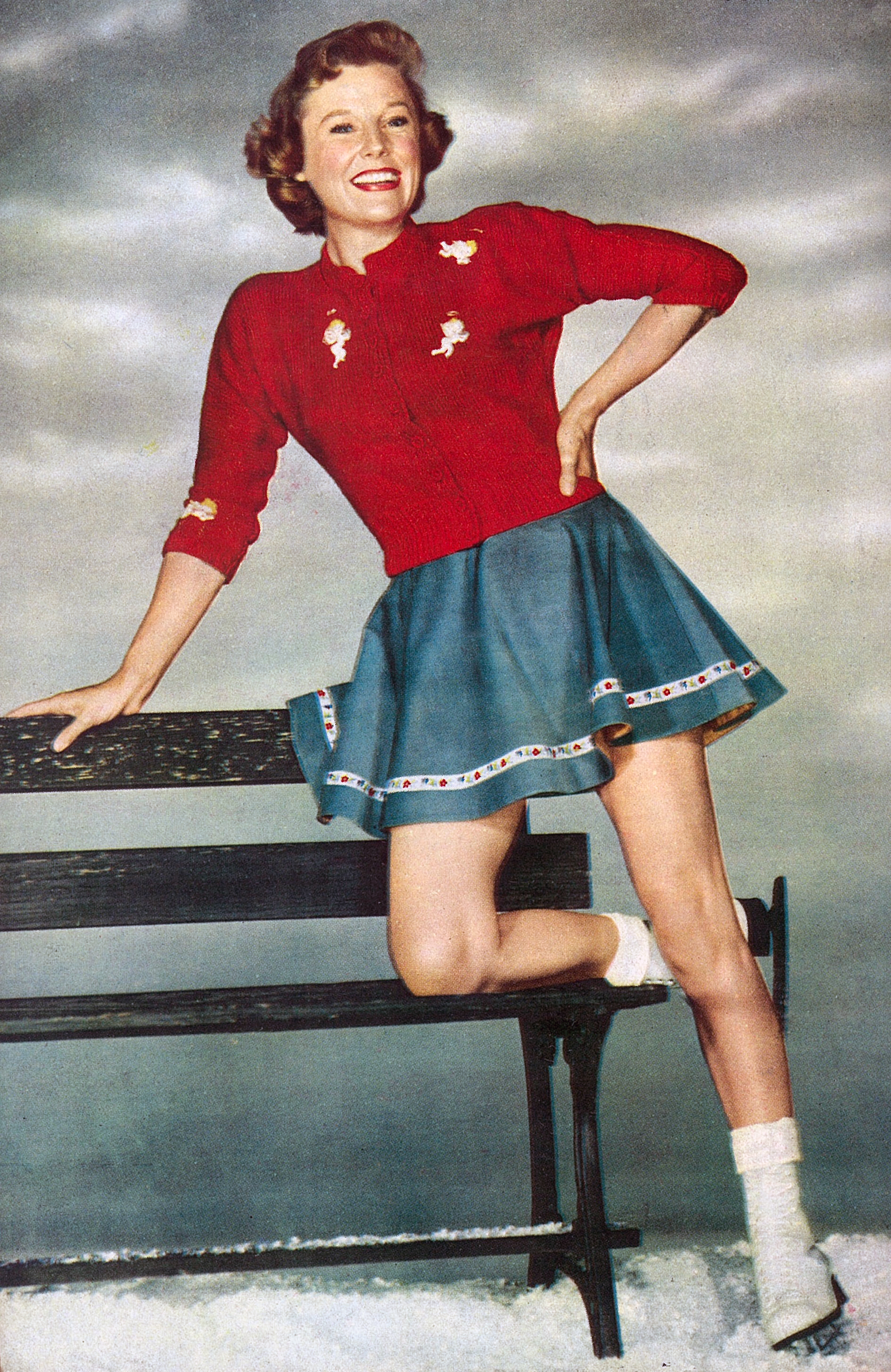 June Allyson from Eiga no Tomo (December 1953)